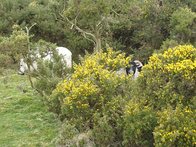 Ambush Whins may be spiky but are still fair game for the sheep, especially in 2008 when the grass was slow in getting going with a cold Spring.